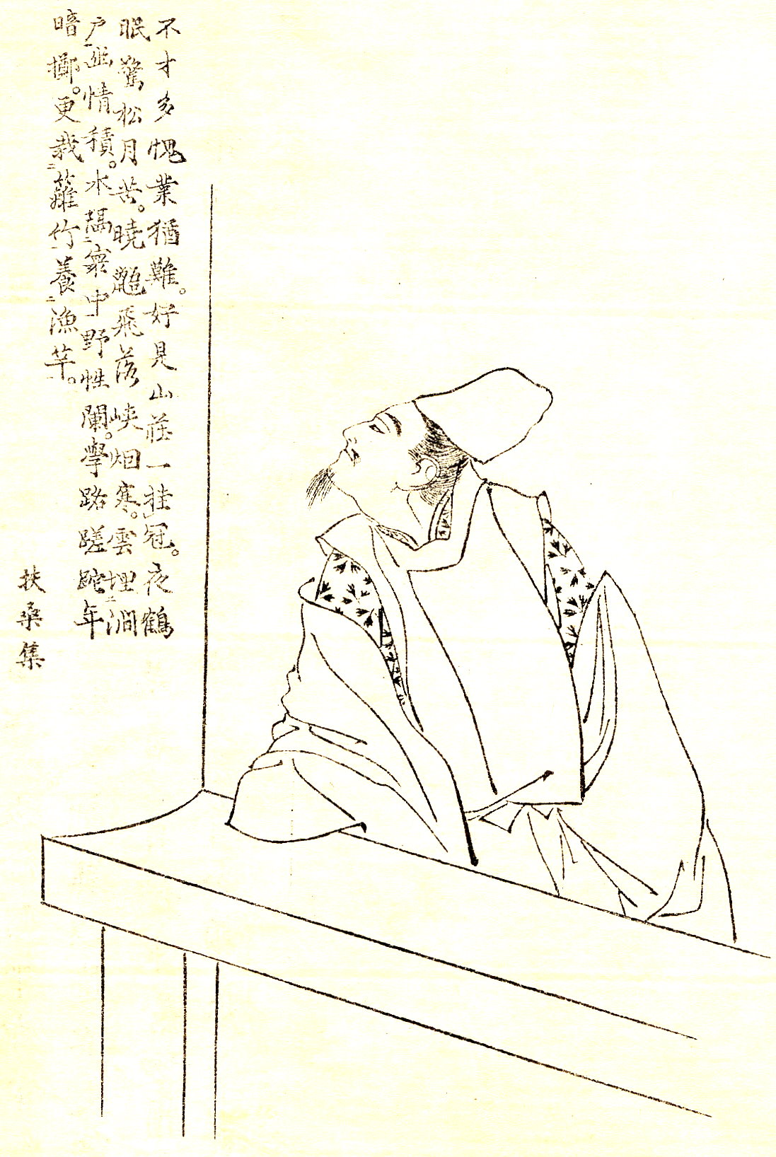 Miyako no Yoshika (都良香) was a poet and a literary man in the Heian Period. This picture was drawn by Kikuchi Yōsai（菊池容斎）who was a painter in Japan.